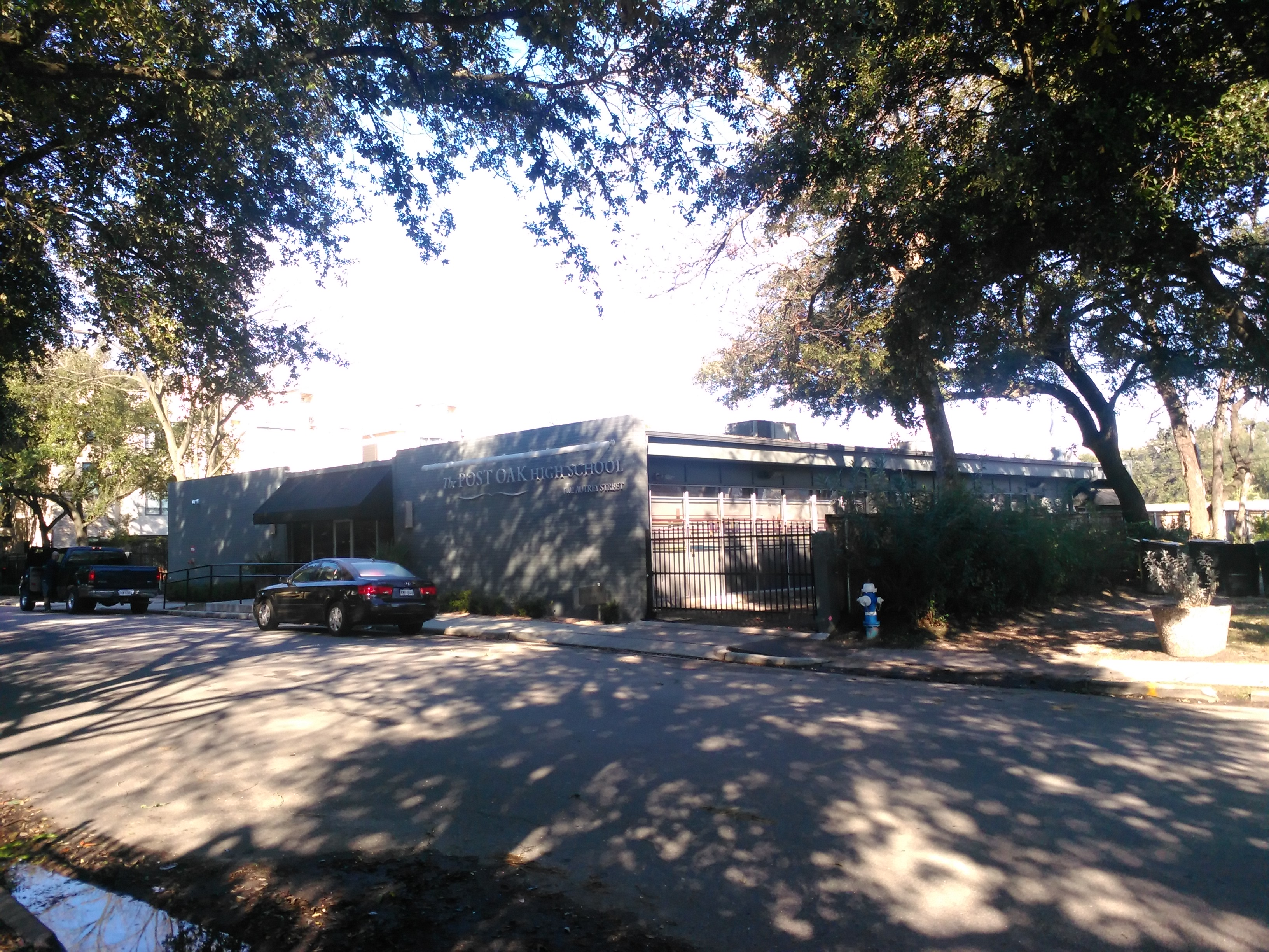 Post Oak High School